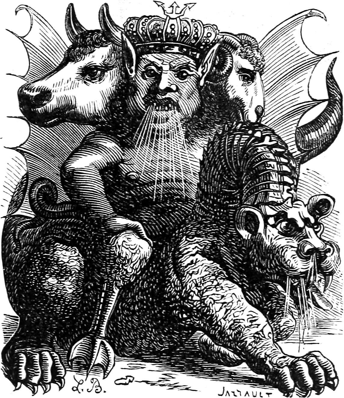 Asmodeus, from Jacques Collin de Plancy, Dictionnaire infernal, Paris 1863